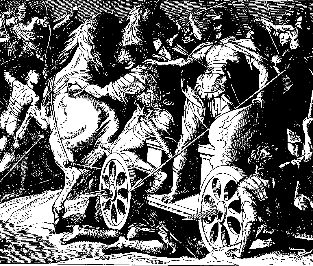 Woodcut for "Die Bibel in Bildern", 1860.